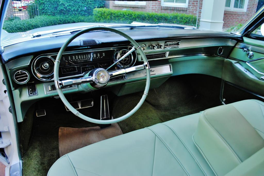 This is a picture of a vehicle (name of it is on the file name).